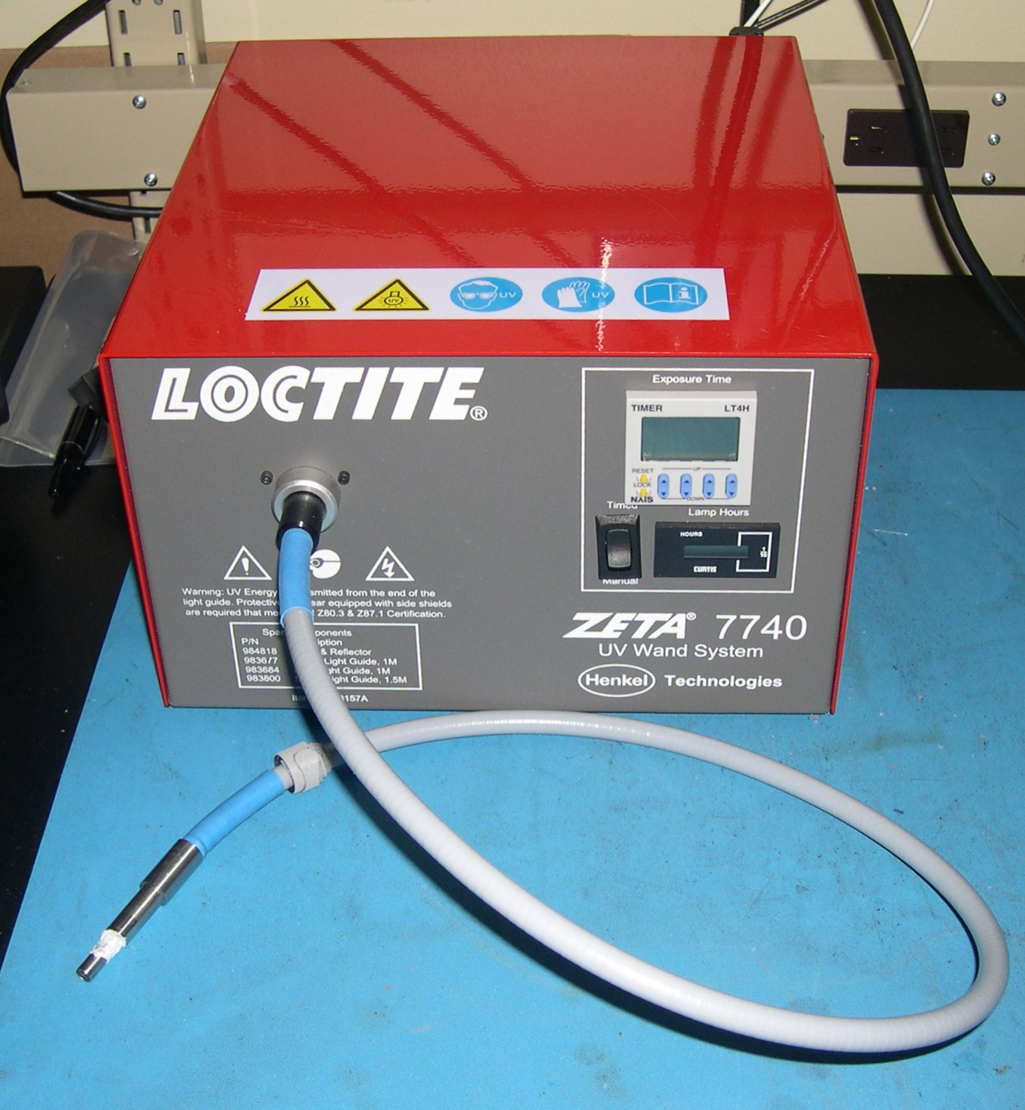 Loctite glue curer.